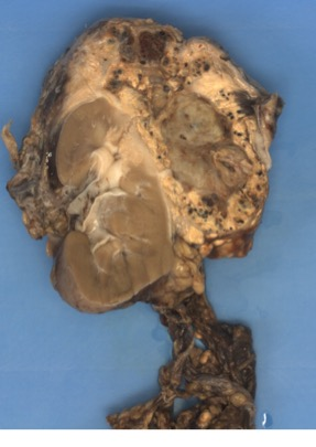 A tumor is seen in the upper pole of the kidney. The tumor is well circumscribed with multiple necrotic, hemorrhagic and cystic changes.